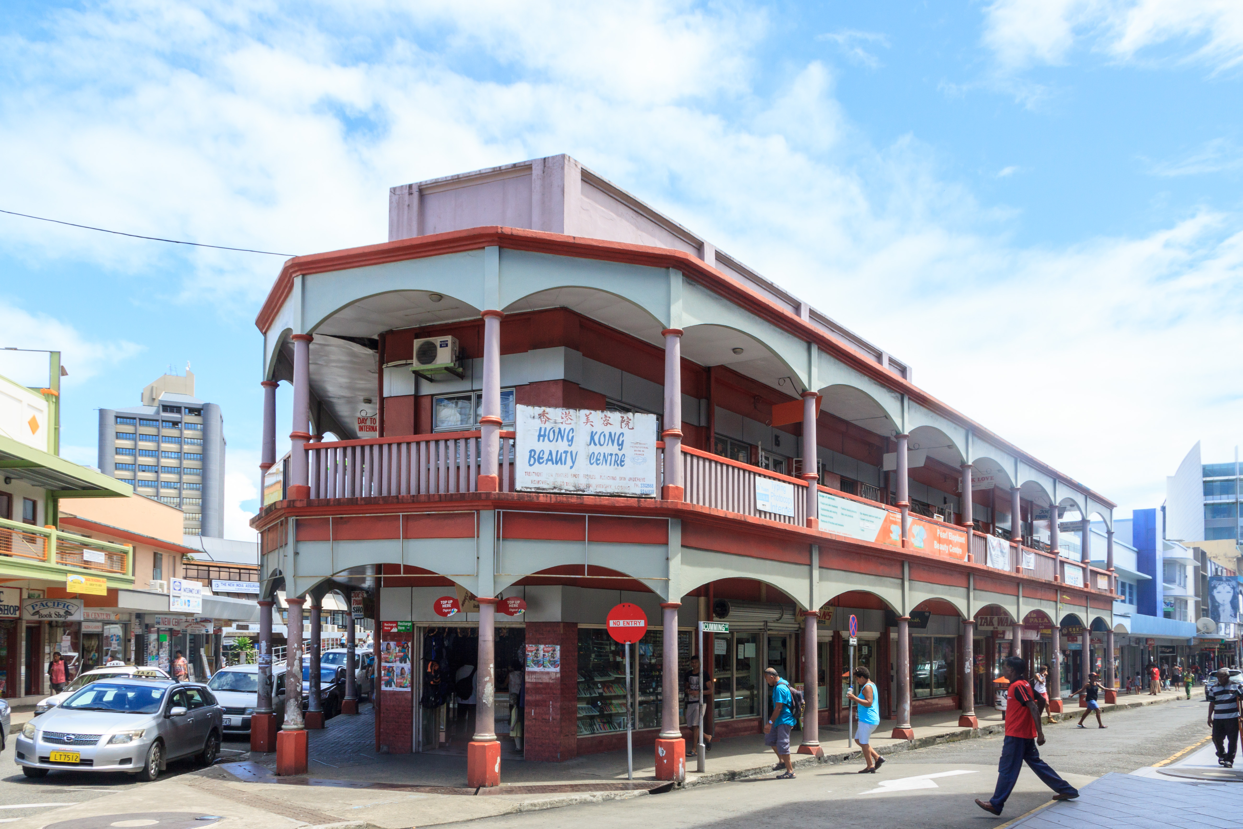 Cumming Street (Suva)